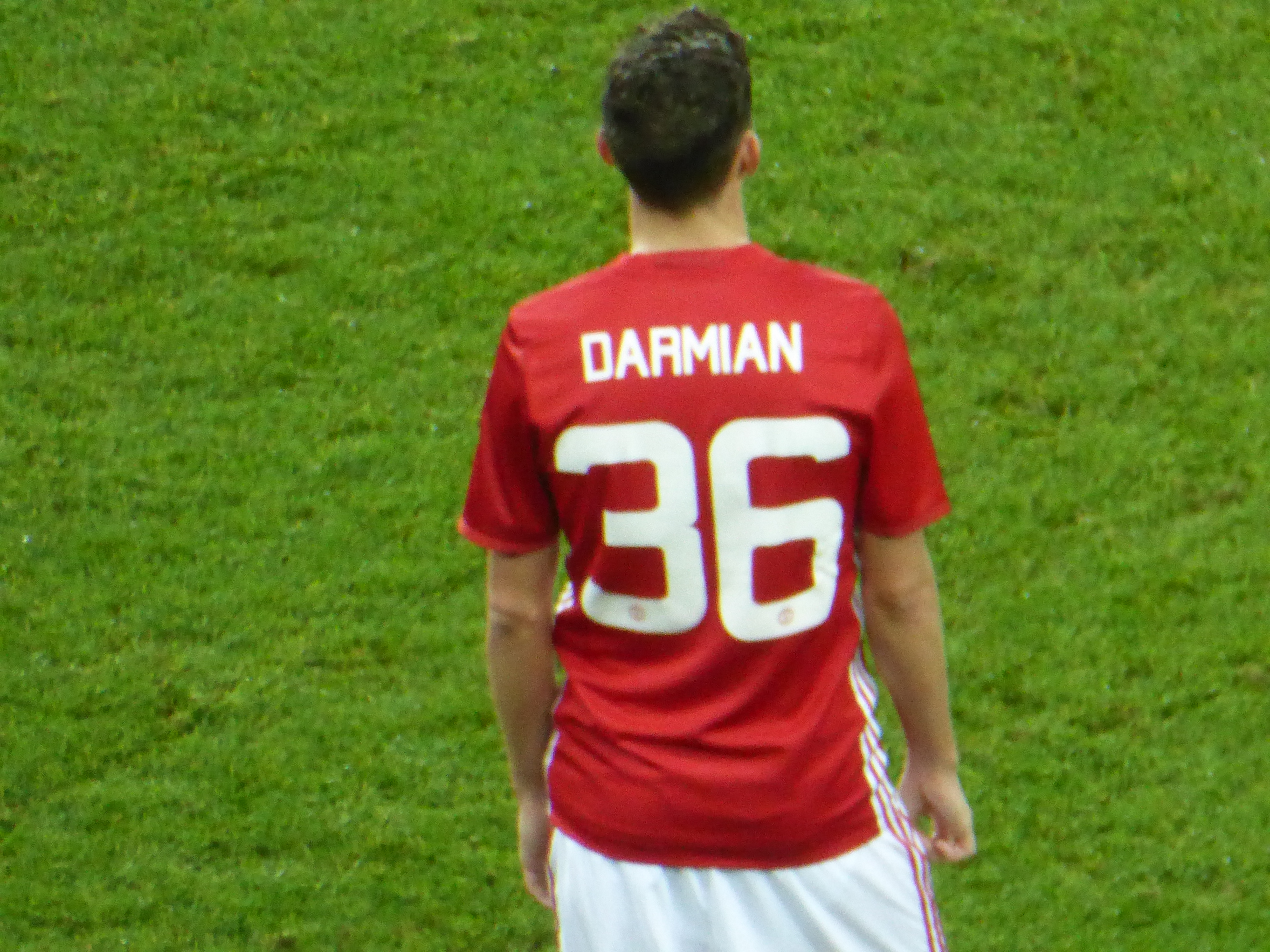 Manchester United v Hull City (2-0), EFL Cup, Old Trafford, Manchester, Greater Manchester, England, January 2017